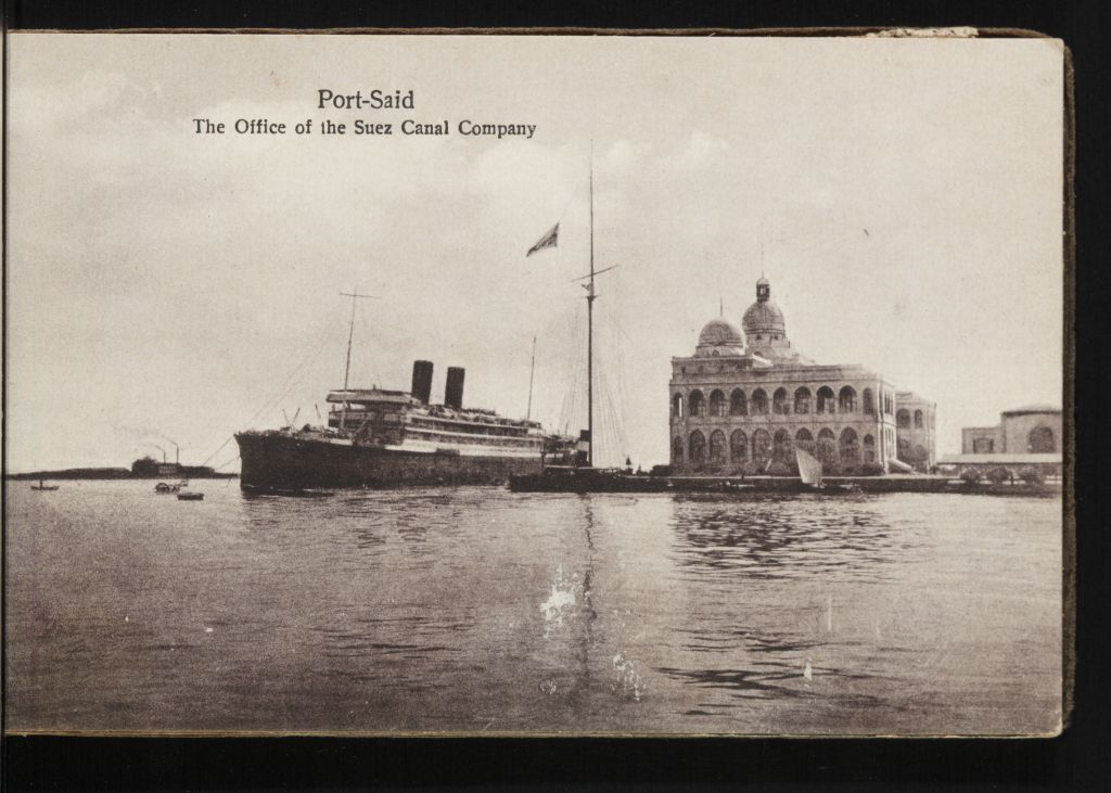 Large ship docked next to a two-story, domed building